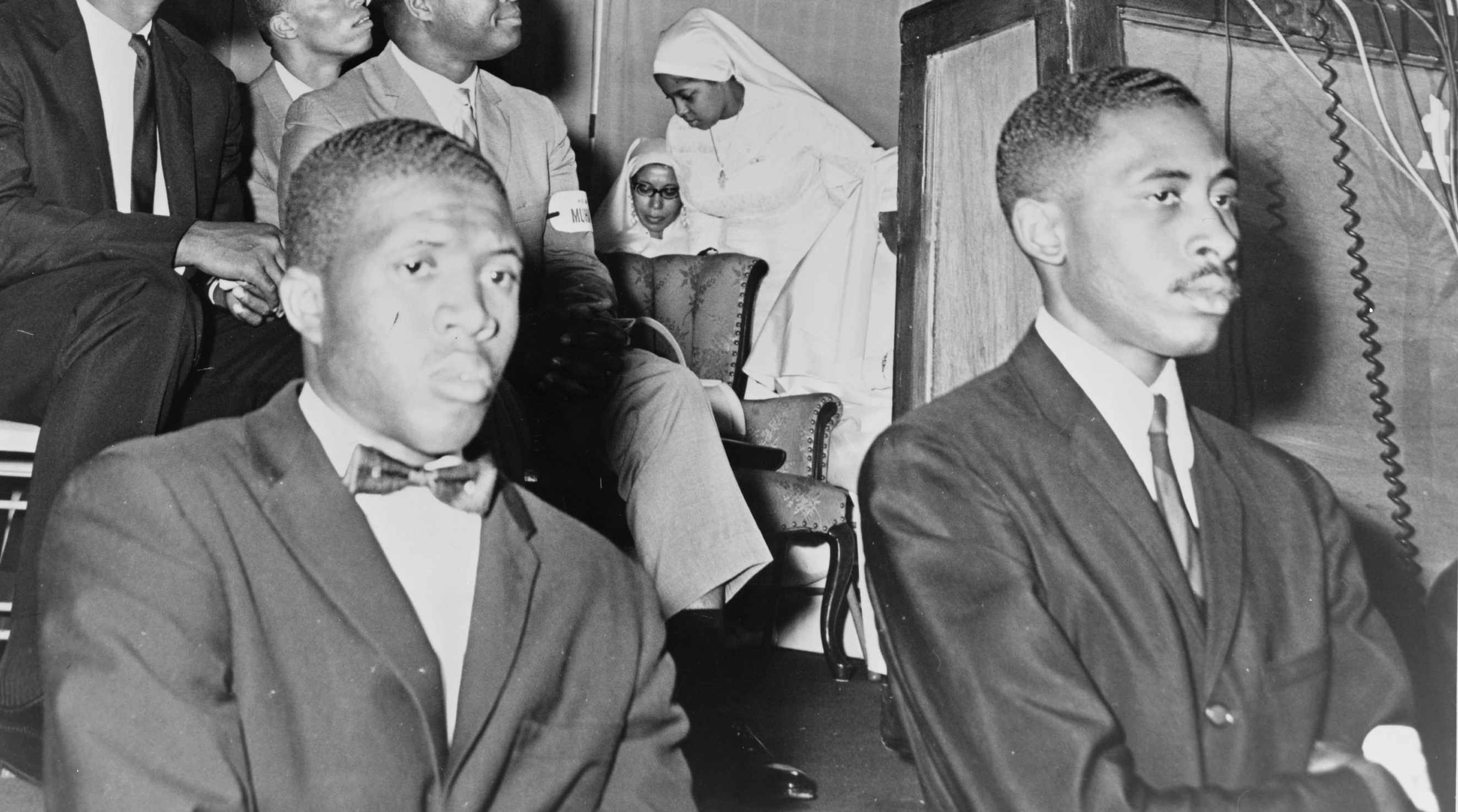 détail of meeting where Elijah Muhammad addresses followers including Cassius Clay / World Telegram & Sun photo by Stanley Wolfson. The detail show 2 members of "fruits of islam", the security group of Nation of islam.